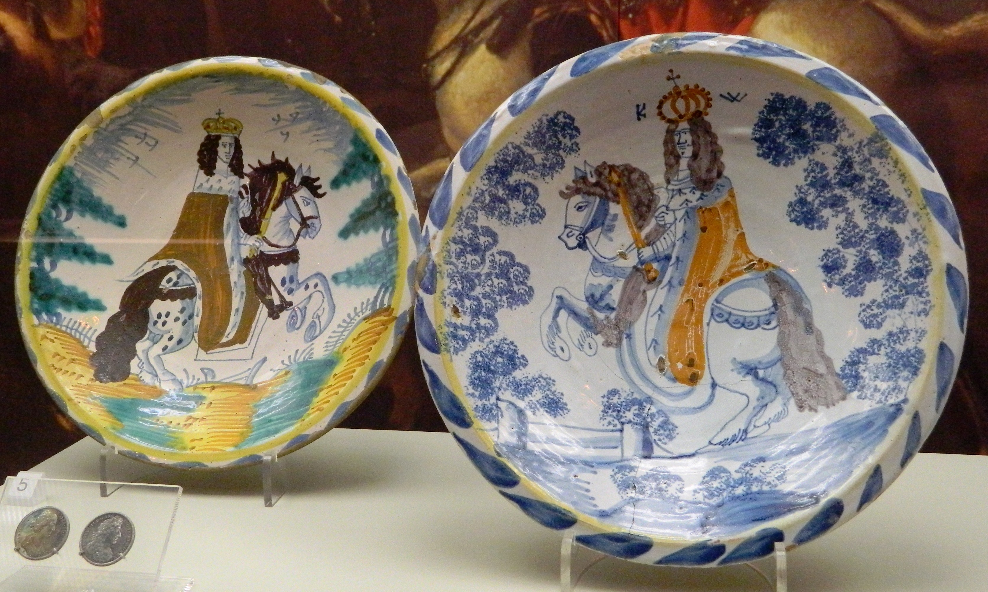 Two chargers showing William III on horseback, Ulster Museum. Tin-glazed earthenware, late 17th or early 18th century, probably English.